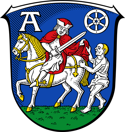 Coat of arms of the German city of Amöneburg, granted 8 December 1978.